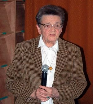 This image has been copied from the source with the permision of webmaster (and with the consent of the director of the service). The permission was granted to Stan Zurek (Zureks) via email from Mirosław Domański Zofia Fischer